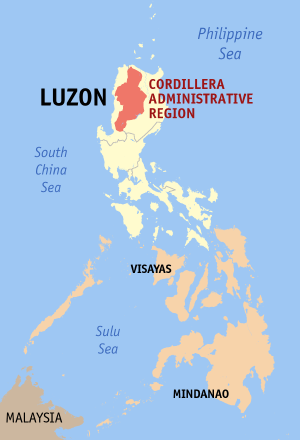 Locator map of the Cordillera Administrative Region (CAR) in the Philippines